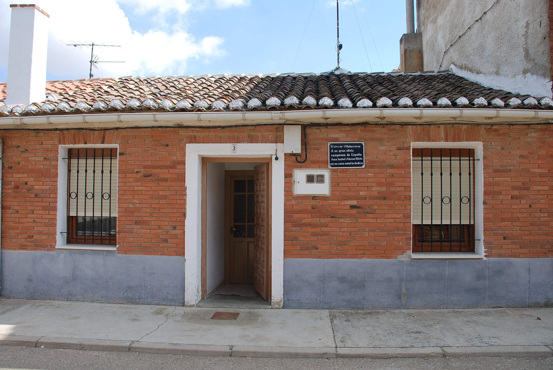 Villaherreros (Palencia, Castile and León).